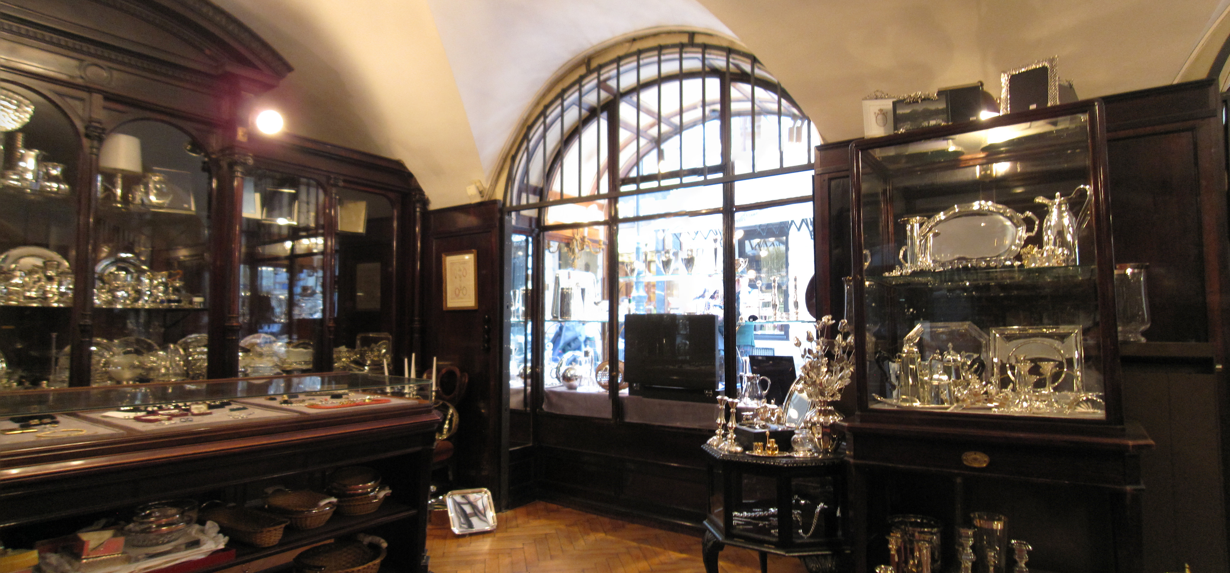 Interior of Rozet & Fischmeister in Vienna's Kohlmarkt.